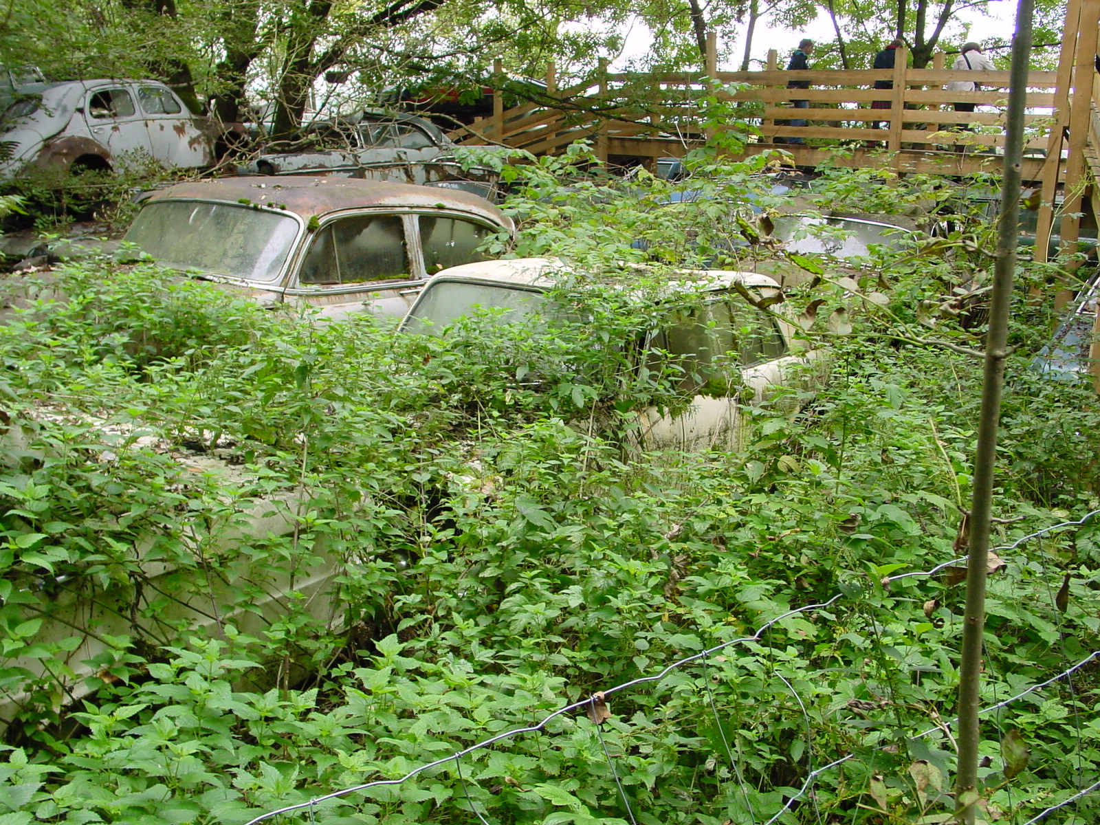 Object at the carjunk in Kaufdorf (Guerbetal) (Switzerland) Cars hidden in the forest.